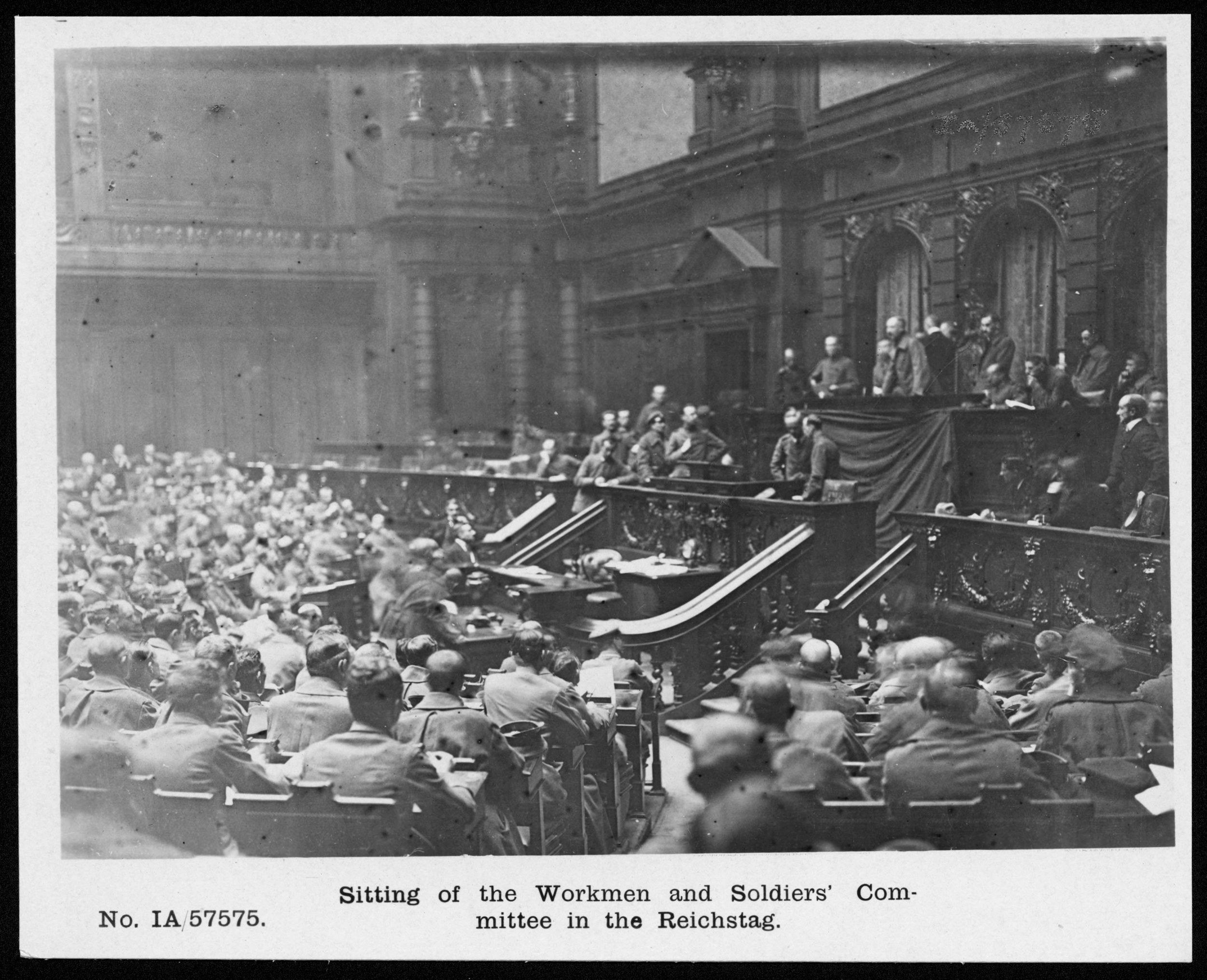 Workers' and Soldiers' Council, Berlin, 1918. Delegates of the Workers' and Soldiers' Council (Arbeiter-Soldaten-Rate), seated in the hall of the Reichstag, listening to a speaker. The Workers' and Soldiers' Councils had been formed on 10 November 1918, the day after Germany had been declared a Republic. This photograph could date from then, or from their first National Congress on 16 December 1918. The Workers' and Soldiers' Councils of Berlin elected an Executive Council and a Council of Peoples' Commissars headed by Friedrich Ebert (1871-1925), leader of the Social Democratic Party. [Original reads: 'No. IA/57575. Sitting of the Workmen and Soldiers' Committee in the Reichstag.']